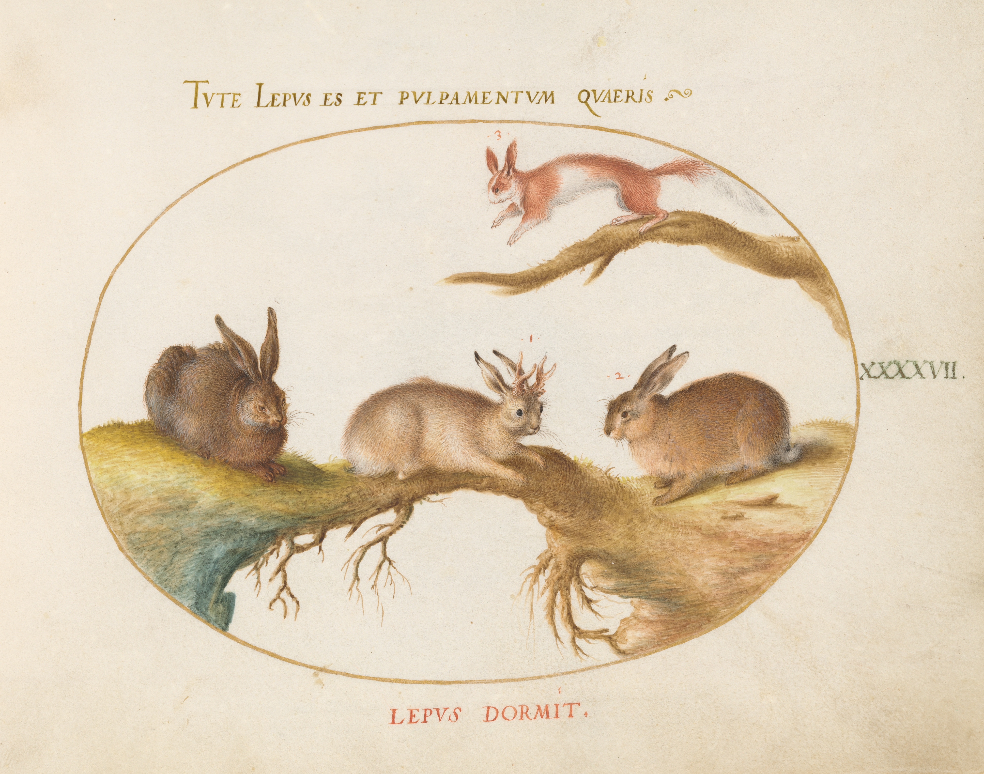 Plate XLVII (77) from Animalia Qvadrvpedia et Reptilia (Terra), showing a horned hare, watercolor and gouache, with oval border in gold, on vellum, page size (approximate): 14.3 x 18.4 cm, National Gallery of Art Washington From the series called Animalia rationalia et insecta (ignis); Animalia quadrupedia et reptilia (terra) ; Animalia aquatilia et conchiliata (aqua); and Animalia volatilia et amphibia (aier) (also referred to as the Four Elements)